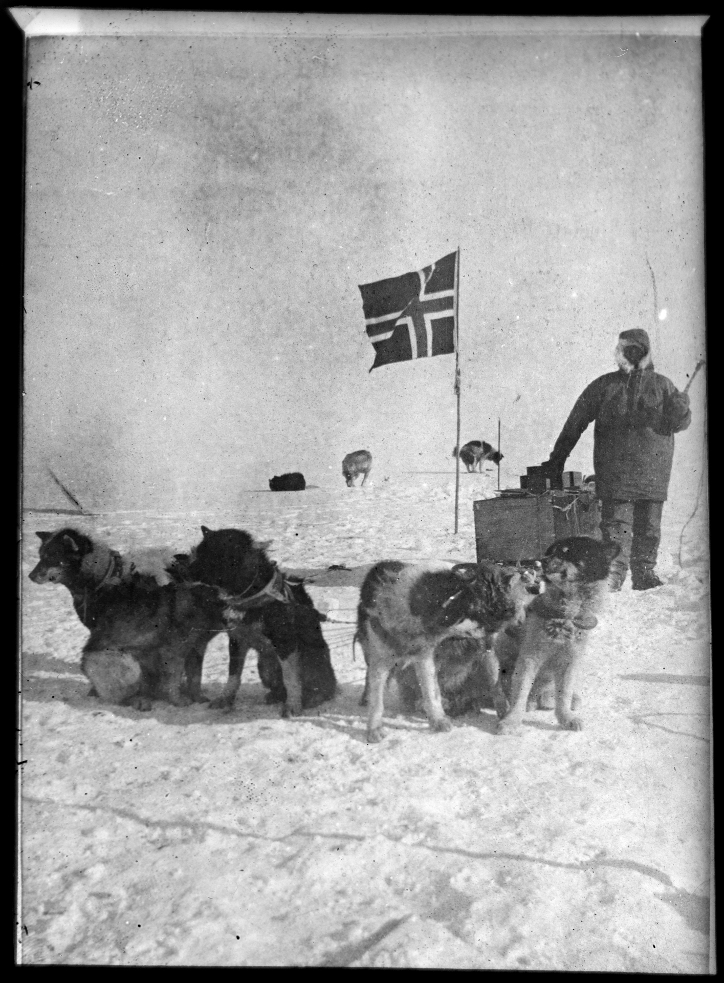 Tittel / Title: Olav Bjaaland med hundespannet sitt på Sydpolen Motiv / Motif: Negativ glassplate. Dato / Date: 14. desember 1911 Fotograf / Photographer: ukjent / unknown Sted / Place: Antarktis, Sydpolen Eier / Owner Institution: Nasjonalbiblioteket / National Library of Norway Lenke / Link: Bildesignatur / Image Number: bldsa_NPRA0127